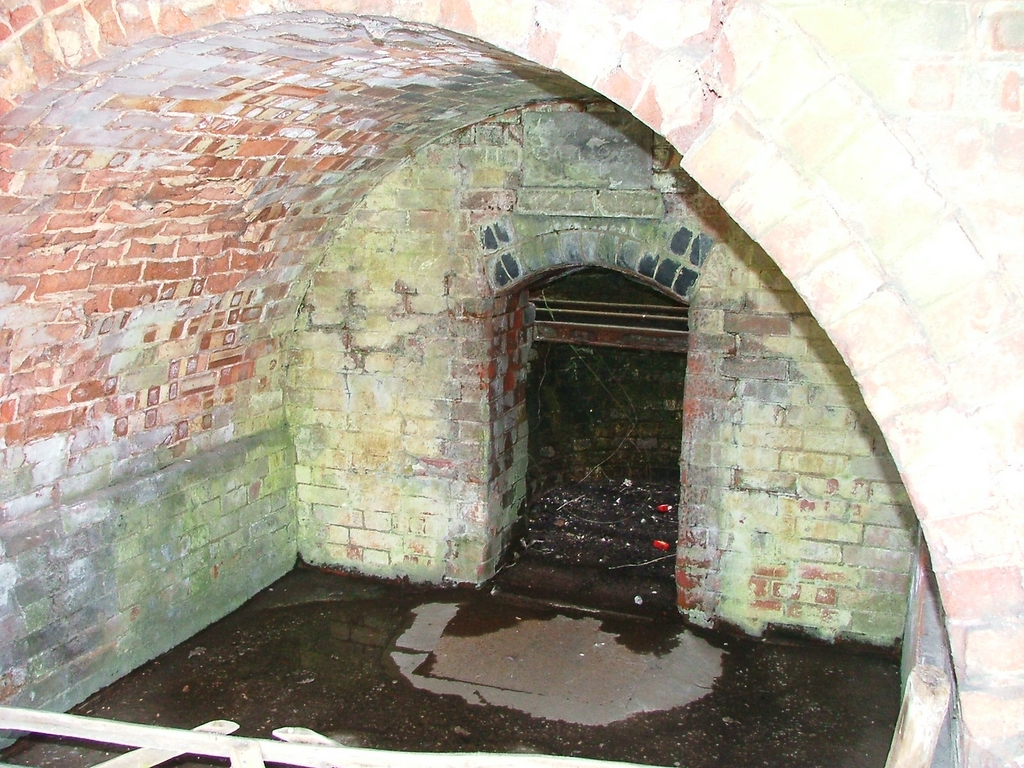 Amberley working museum was a limeworks before being worked out and becoming a museum. Chalk was burnt here to produce lime.